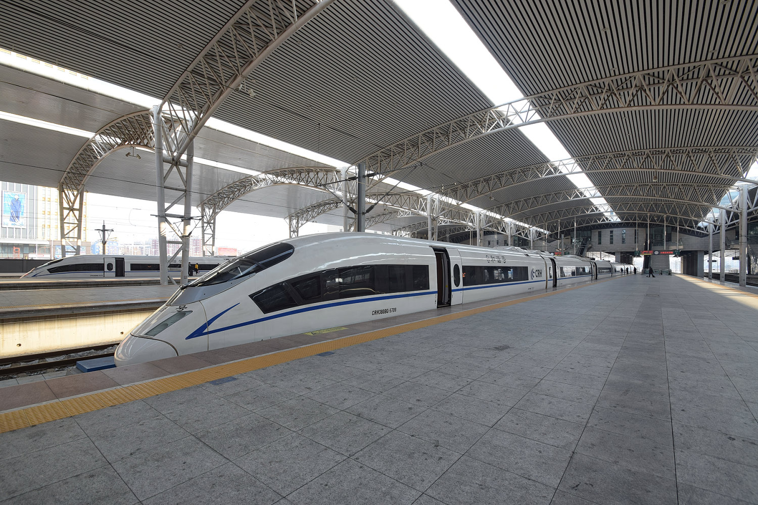 CRH380BG-5709 EMU was stopping at Platform 9 of Jilin Railway Station.